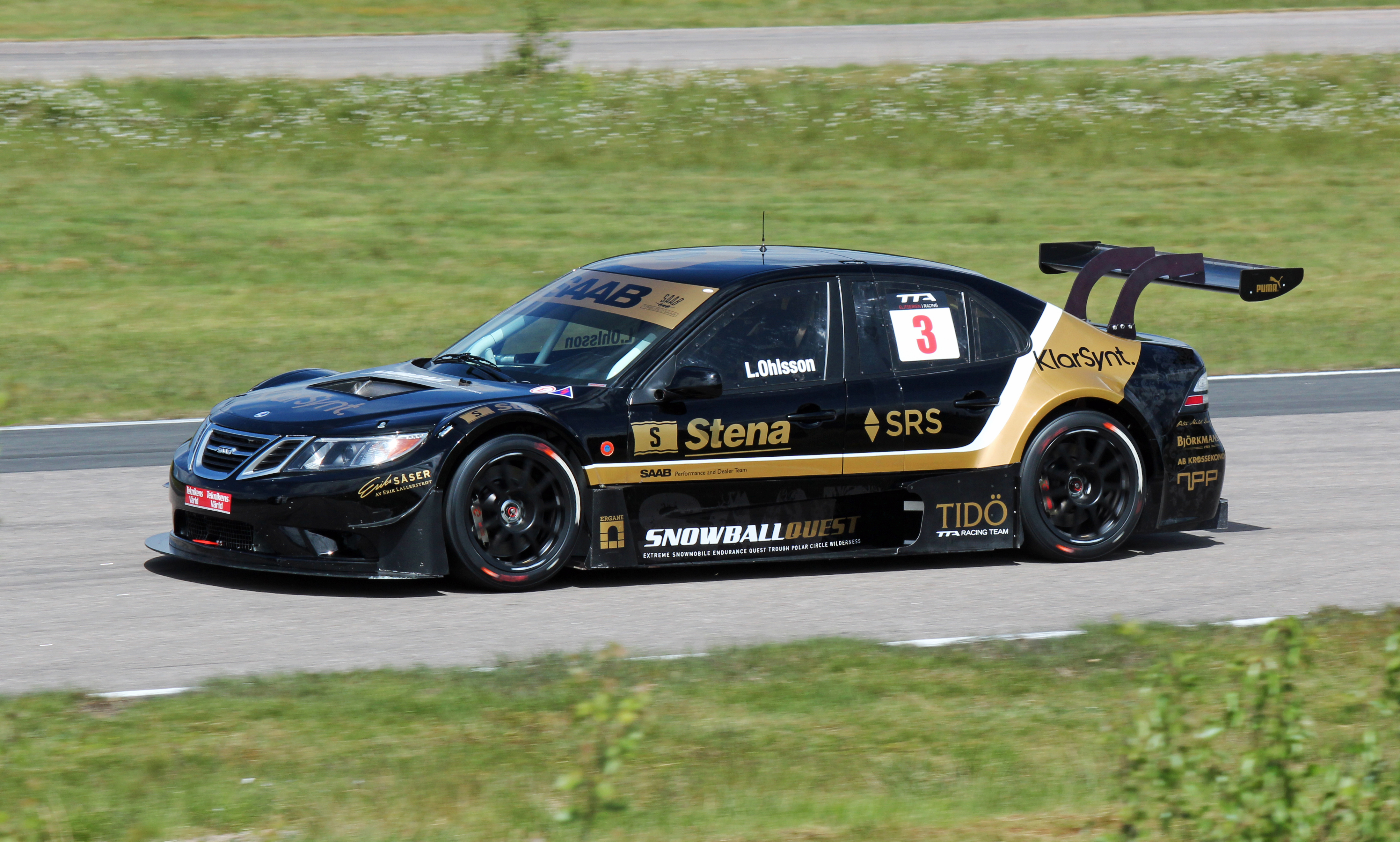 Linus Ohlsson in his SAAB 9-3 Solution-F for Team Tidö/PWR Racing in TTA – Racing Elite League at Anderstorp Raceway in 2012.